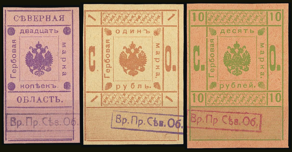 Revenue stamps of the Northern District of Russia, 1918.